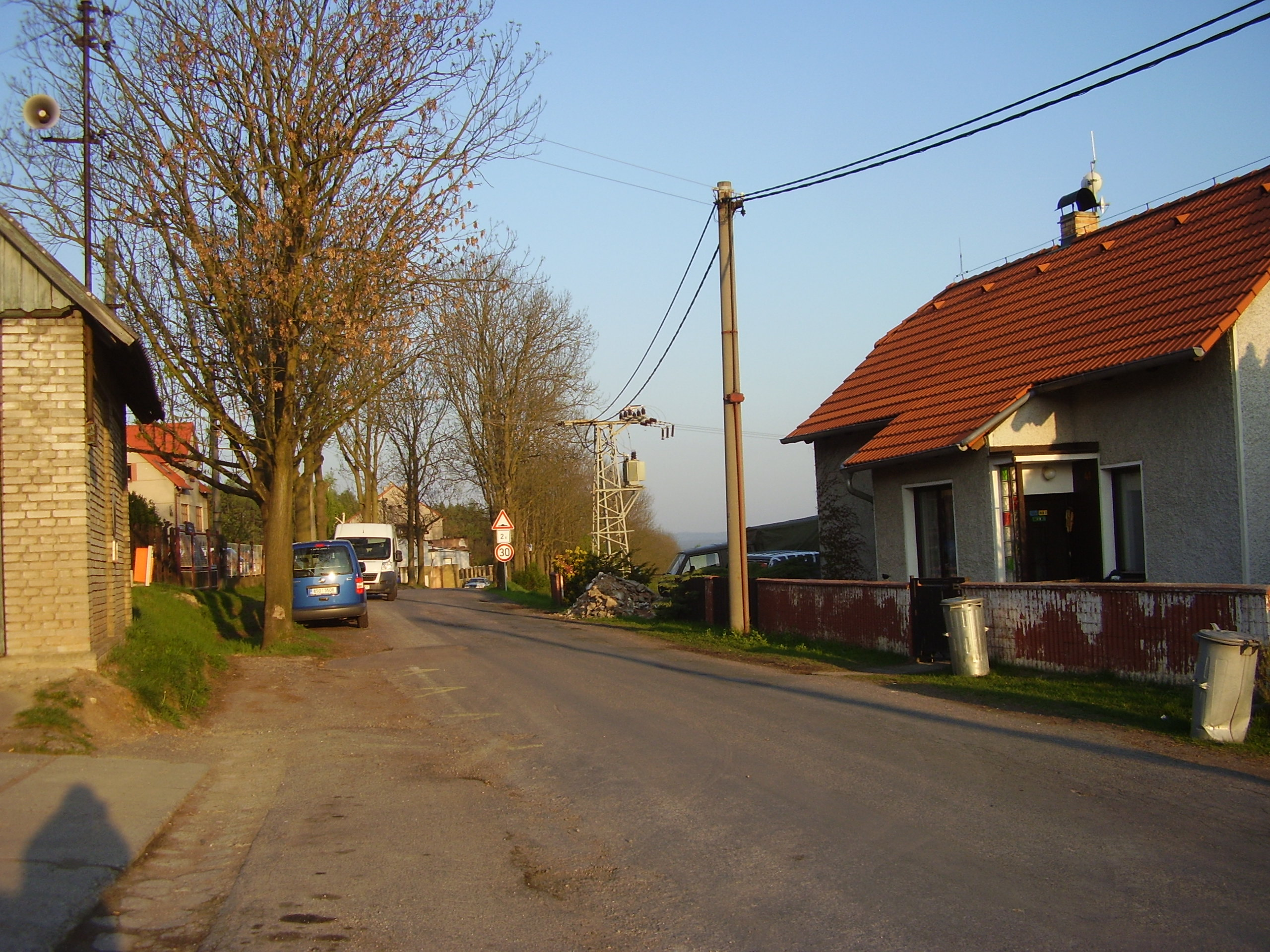 Street, Zdejcina, Beroun District, Czech republic